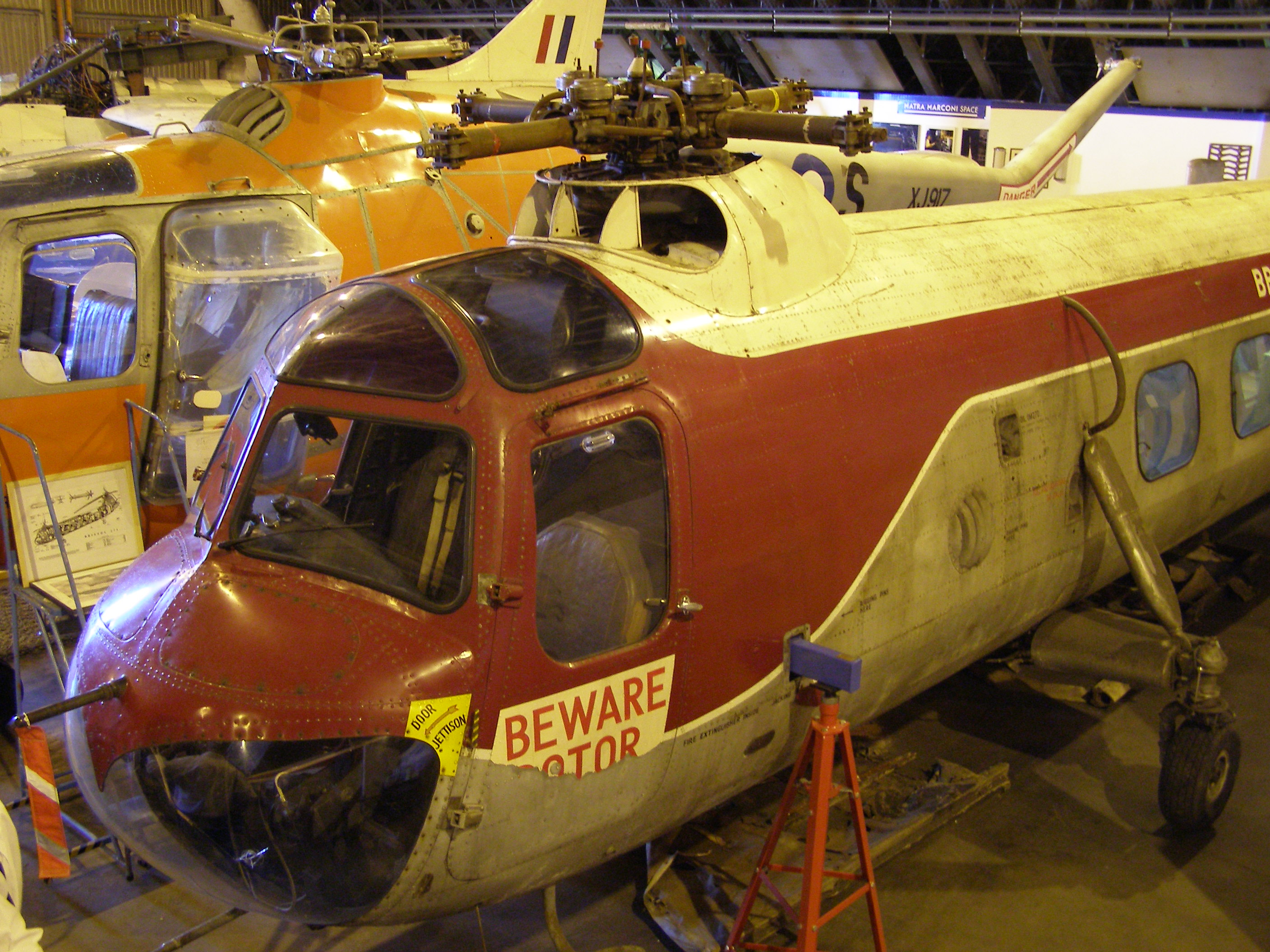 Prototype Bristol 173, military serial number XF783, on display at the Bristol Aero Collection at Kemble Aerodrome, England